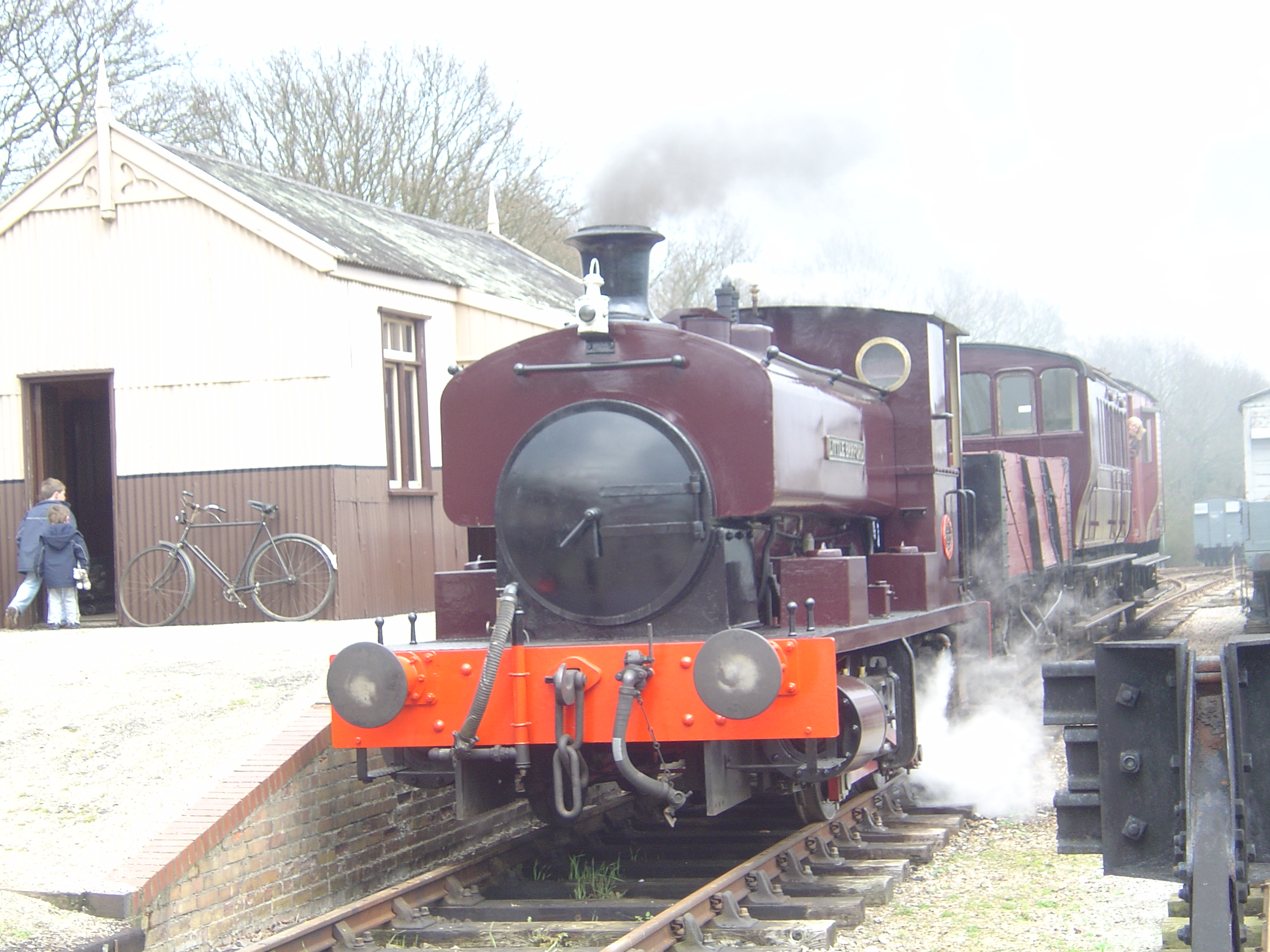 Taken by Nick Fowler on the 16/04/06